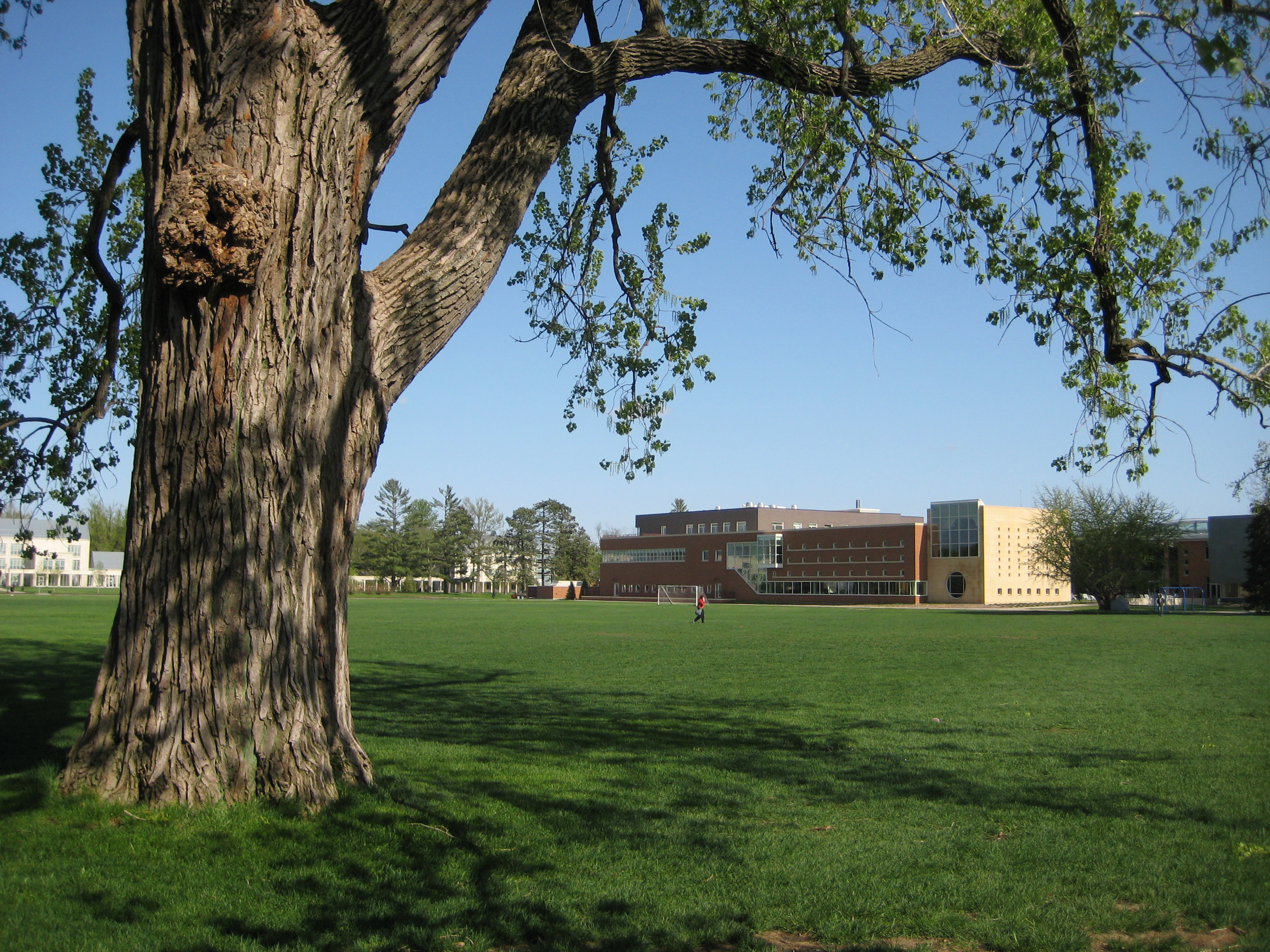 Grinnell College MacEachron Field. The Joe Rosenfield Center, East Campus dorms and Noyce Science Center appear in the background.